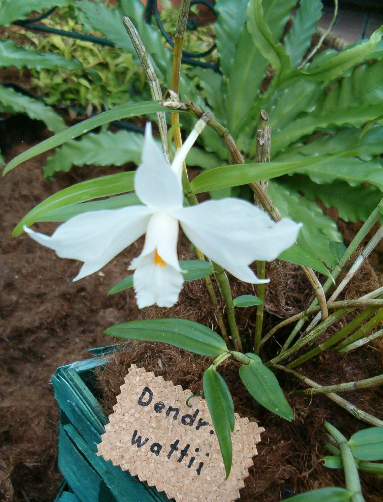 Dendrobium wattii, Habitus and Flowers Location: Botanical Gardens Berlin - Orchid Exhibition